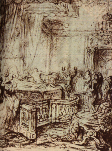 Queen Marie Antoinette of France gives birth to her first child, Marie Thérèse of France, Princess Marie Therese Charlotte of France, 19 December 1778